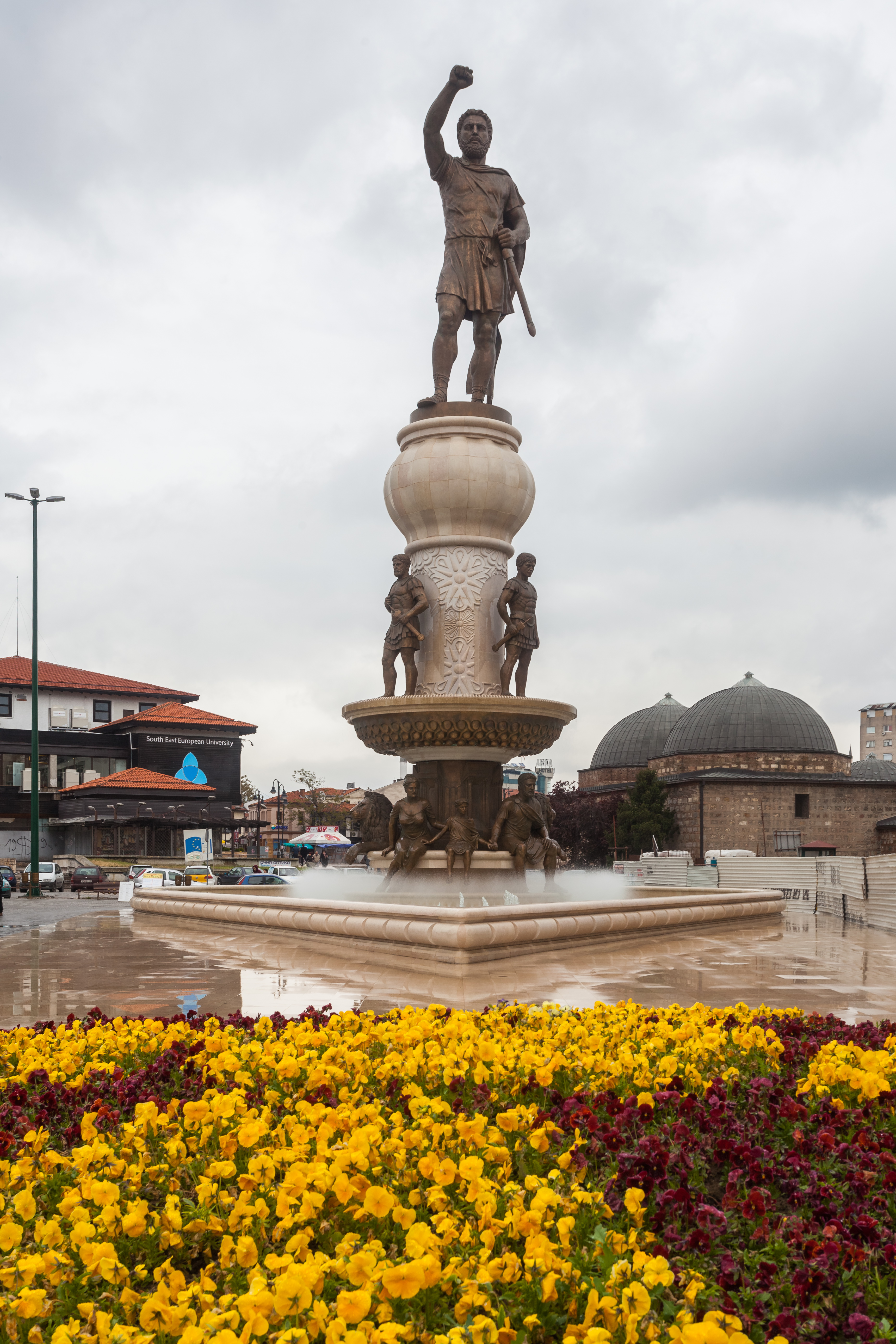 Warrior Monument, Skopje, Macedonia